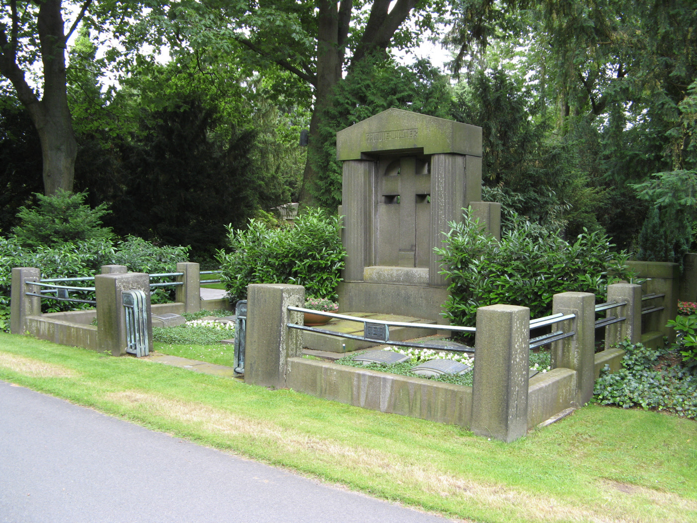 Grave of Friedrich Willmer and family, 13 persons are buried here. Section 17, Stadtfriedhof Engesohde, Hannover, Germany